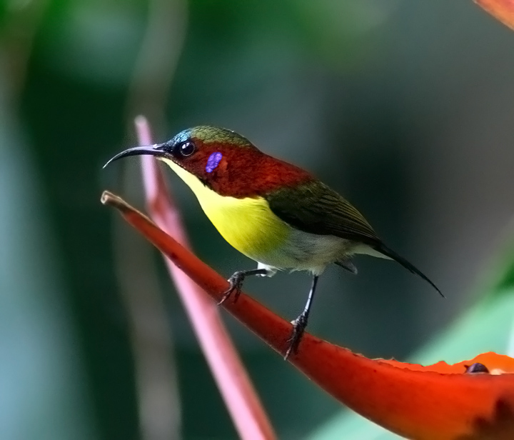 Handsome Sunbird, endemic to the Philippines